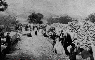 The Exodus from Lydda, Palestine, 1948